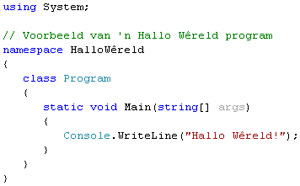 Example of a HelloWorld program written in C#.